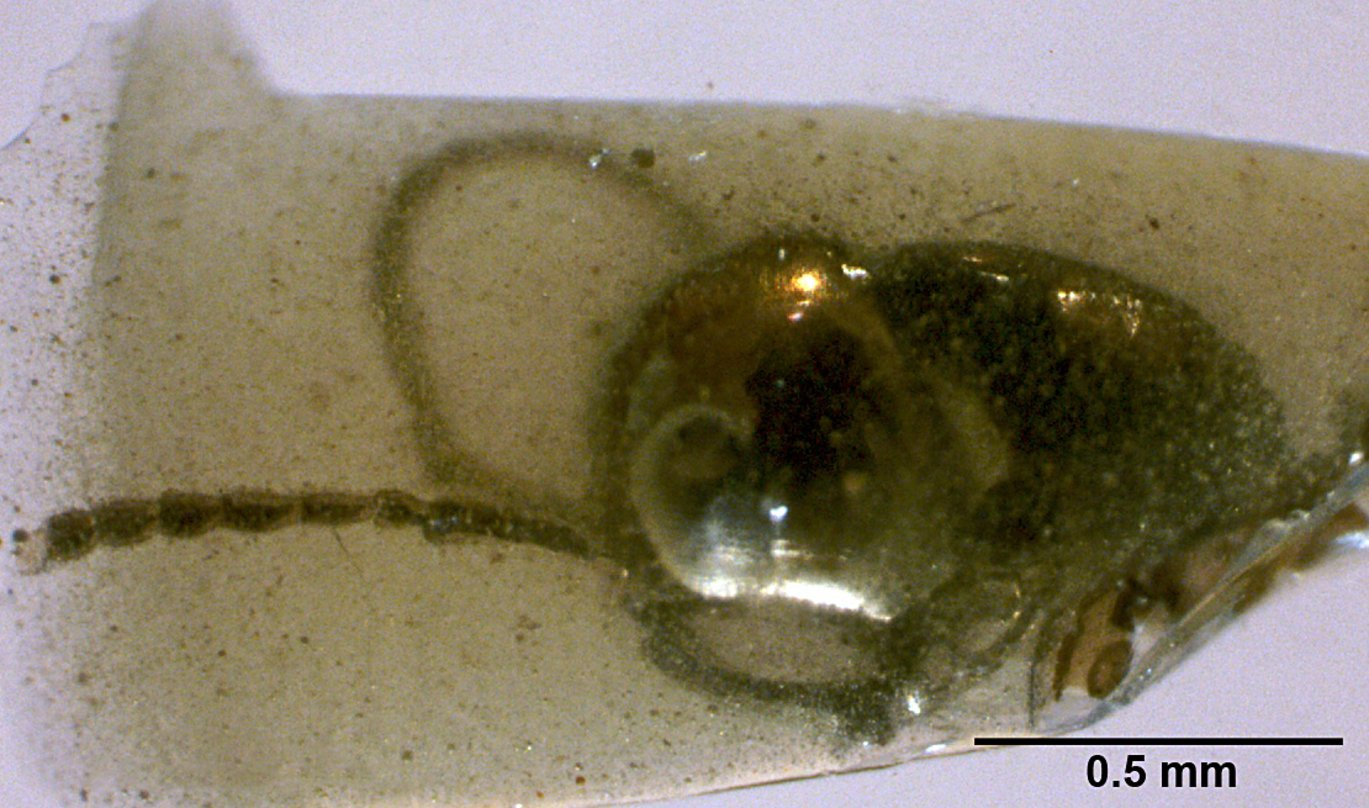 Closeup of the head of Haidomyrmodes mammuthus paratype worker. Specimen number MNHNA30163